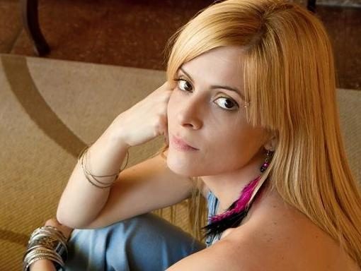 Buenos Aires, 7 de agosto de 2014 - Desde el sábado 16 hasta el 30 agosto del 2014 en la Casa Nacional del Bicentenario, a las 19.00hs se presentarán Laura Ros, Alejandro del Prado y Rubén Goldín. Con entrada libre y gratuita en Riobamba 985.